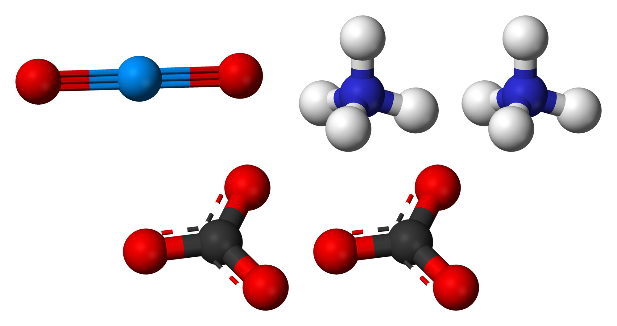 Ball-and-stick model of uranyl ammonium carbonate, an important intermediate in the production of uranium dioxide for nuclear fuel, showing one uranyl cation (top-left), two ammonium cations (top-right) and two carbonate anions (bottom).